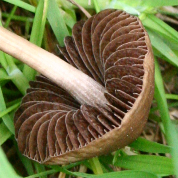 Detail of Panaeolina foenisecii on a wayside verge near Massy, France, showing mottled gills.